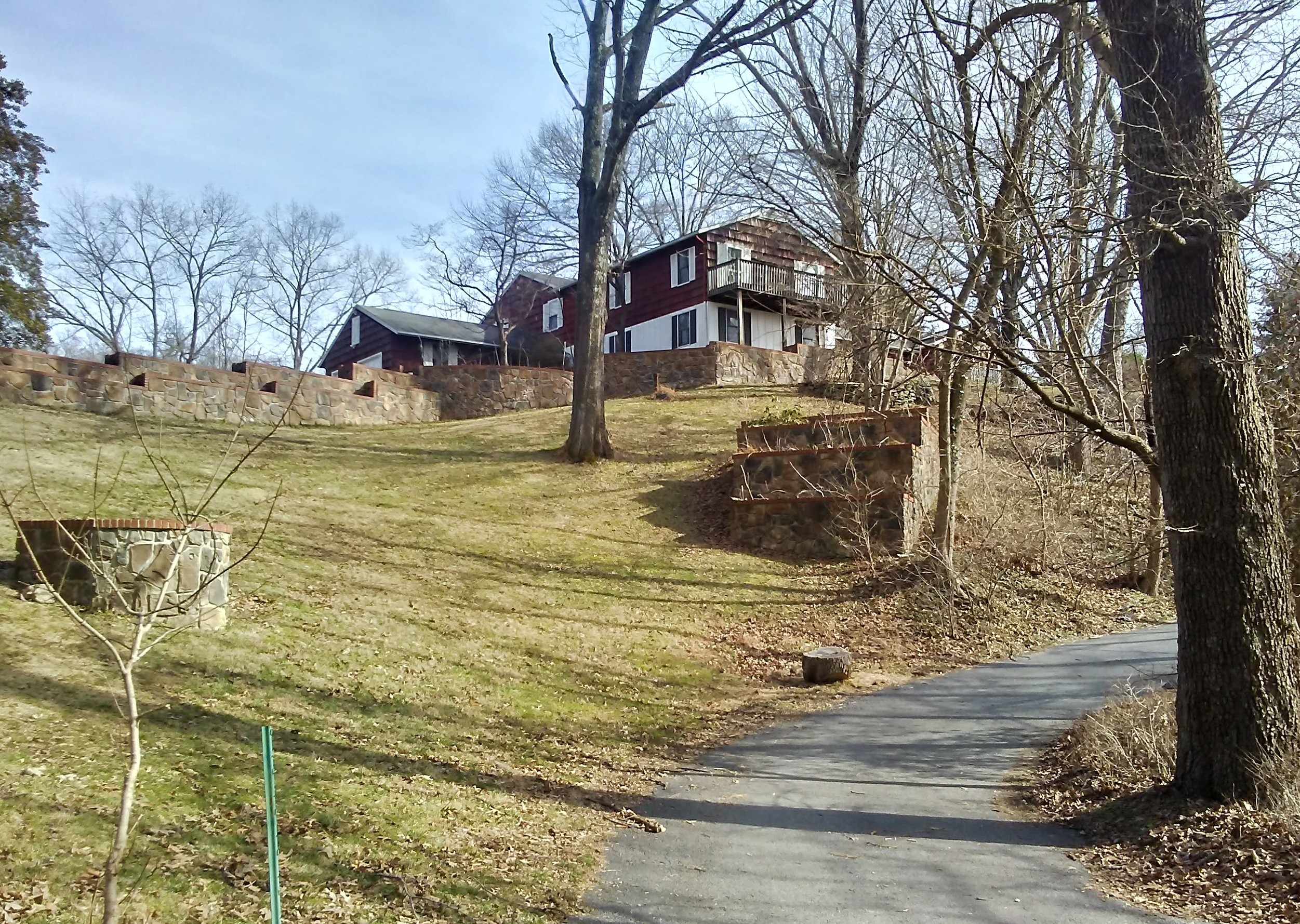 Home of Charles S. Roberts during the 1950s in the Avalon neighborhood. Where the boardgame Tactics was invented and distributed.